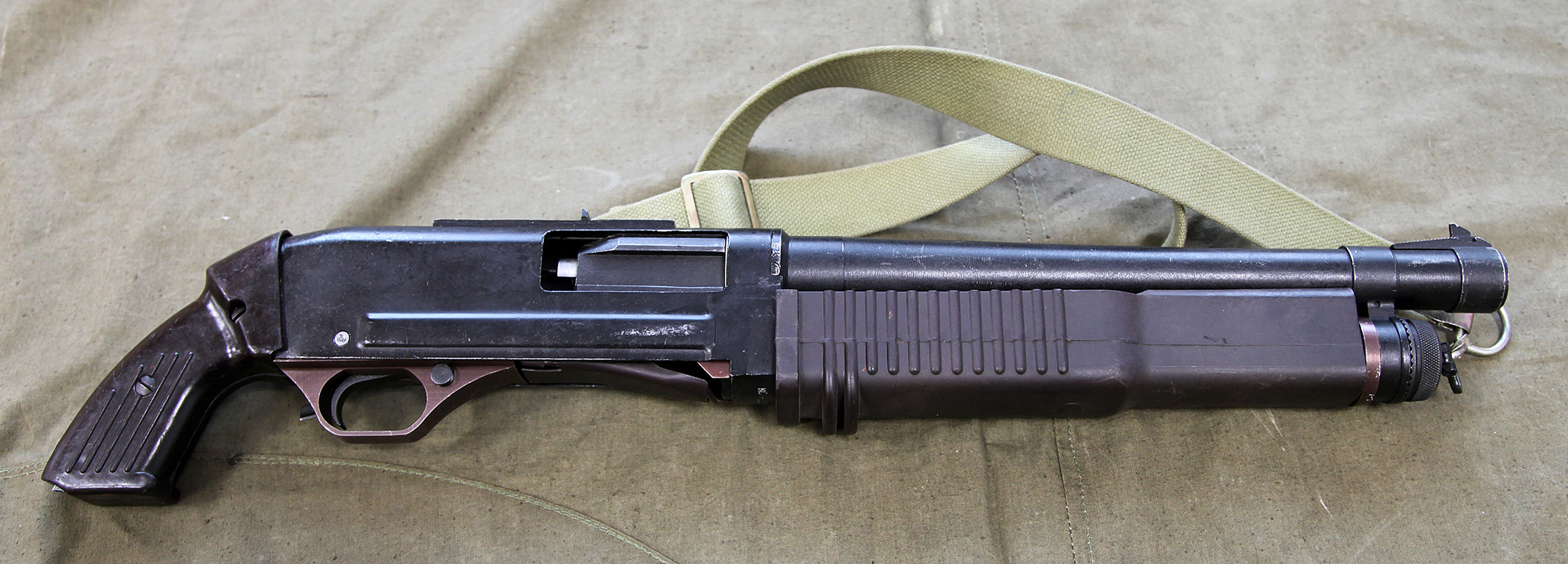 KS-23M shotgun, right view without buttstock